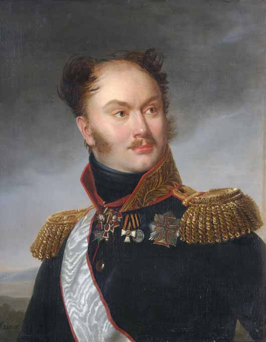 russian general, decembrist